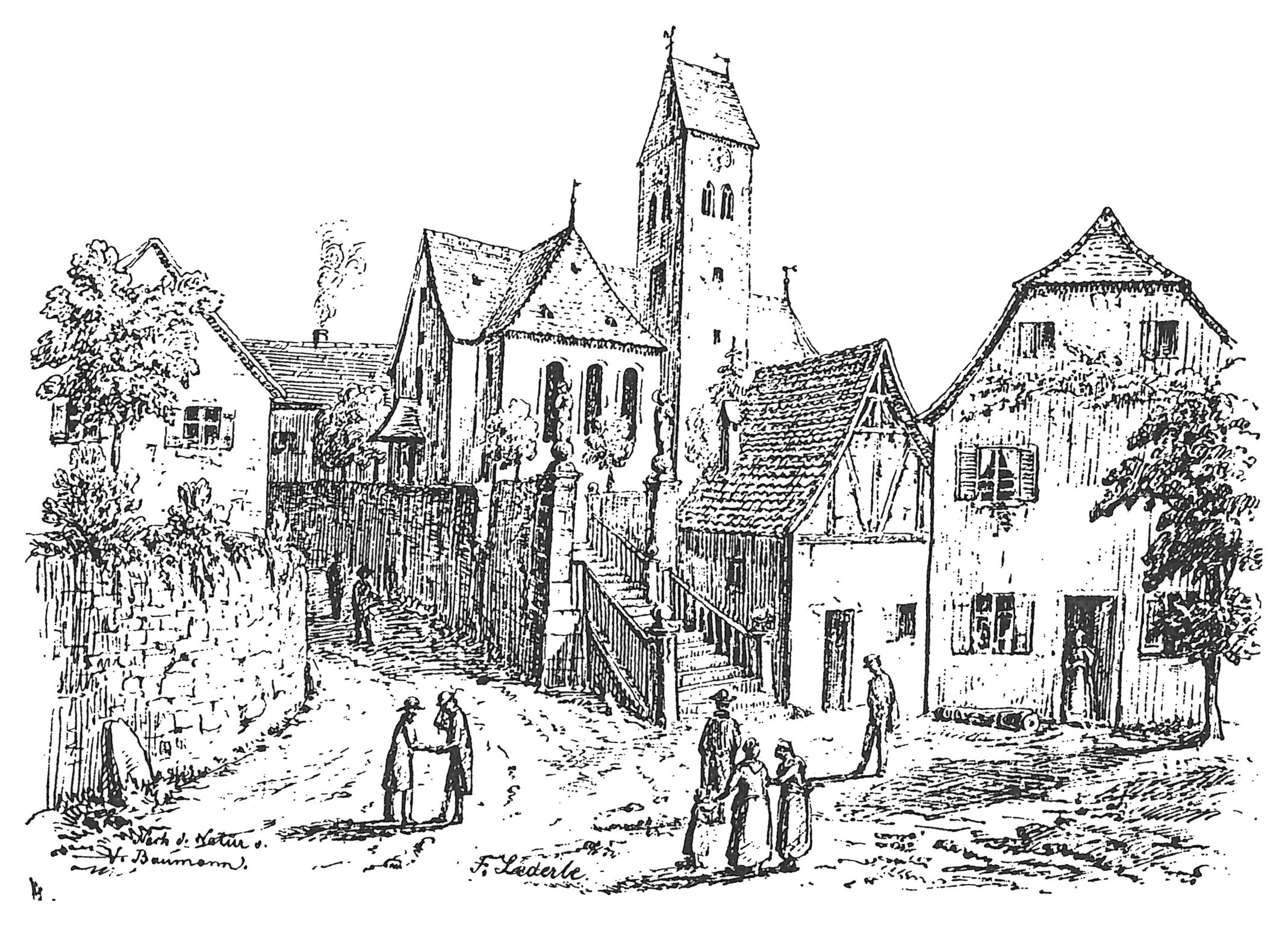 Drawing of the church of At. Gallus and OTmar, Ebringen, Baden-Württemberg, Germany, as of 1874